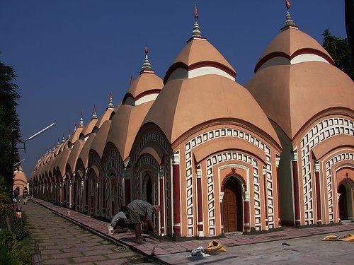 This the picture of a collection of 108 temple of hindu god "Shiv" in Burdwan(Westbengal,India)